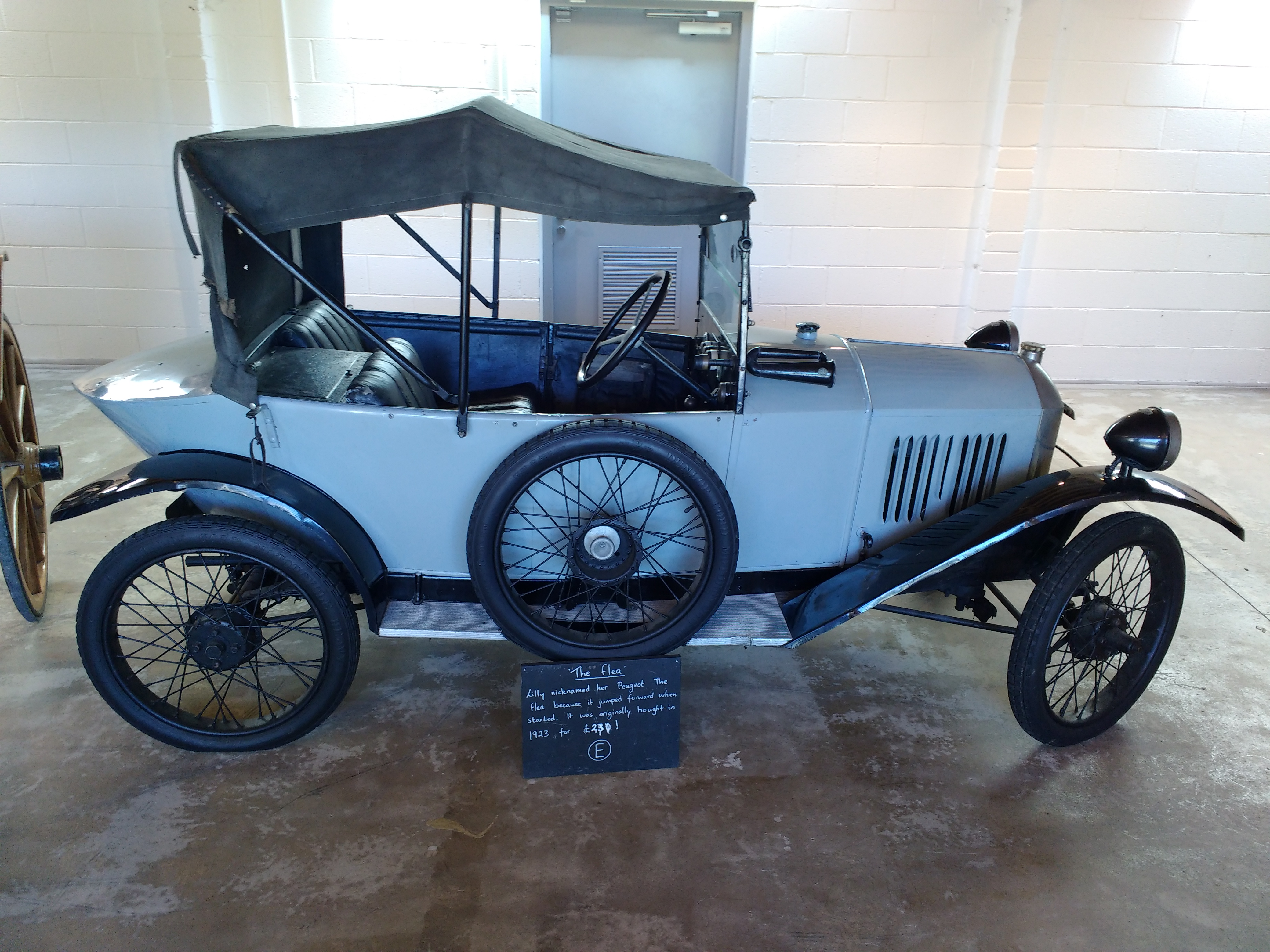 Peugeot 172 Quadrellete, purchased in 1923. Located at Airfield Estate, Dublin, Ireland